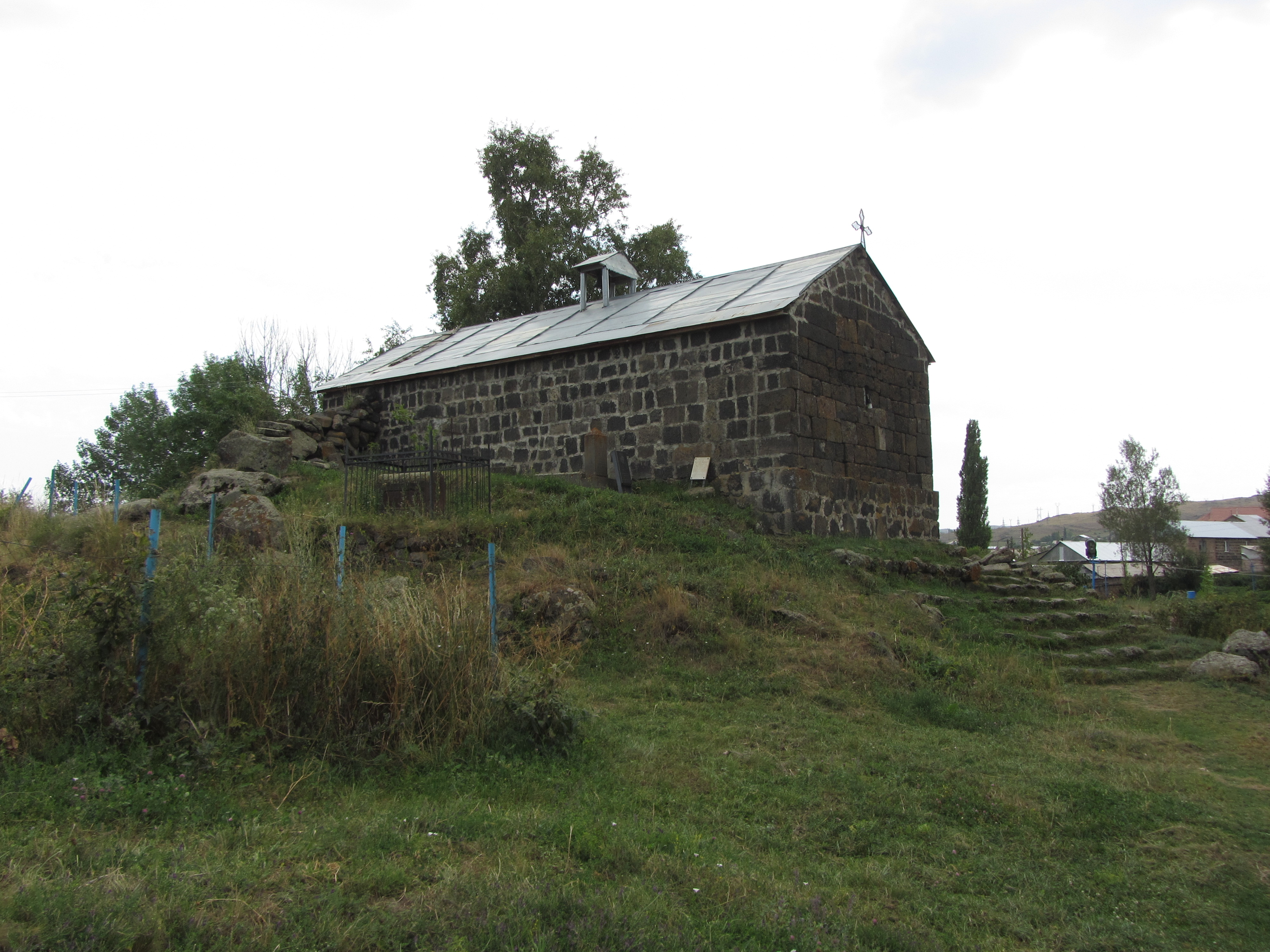 Surb Astvatstatsin church, 19 c.